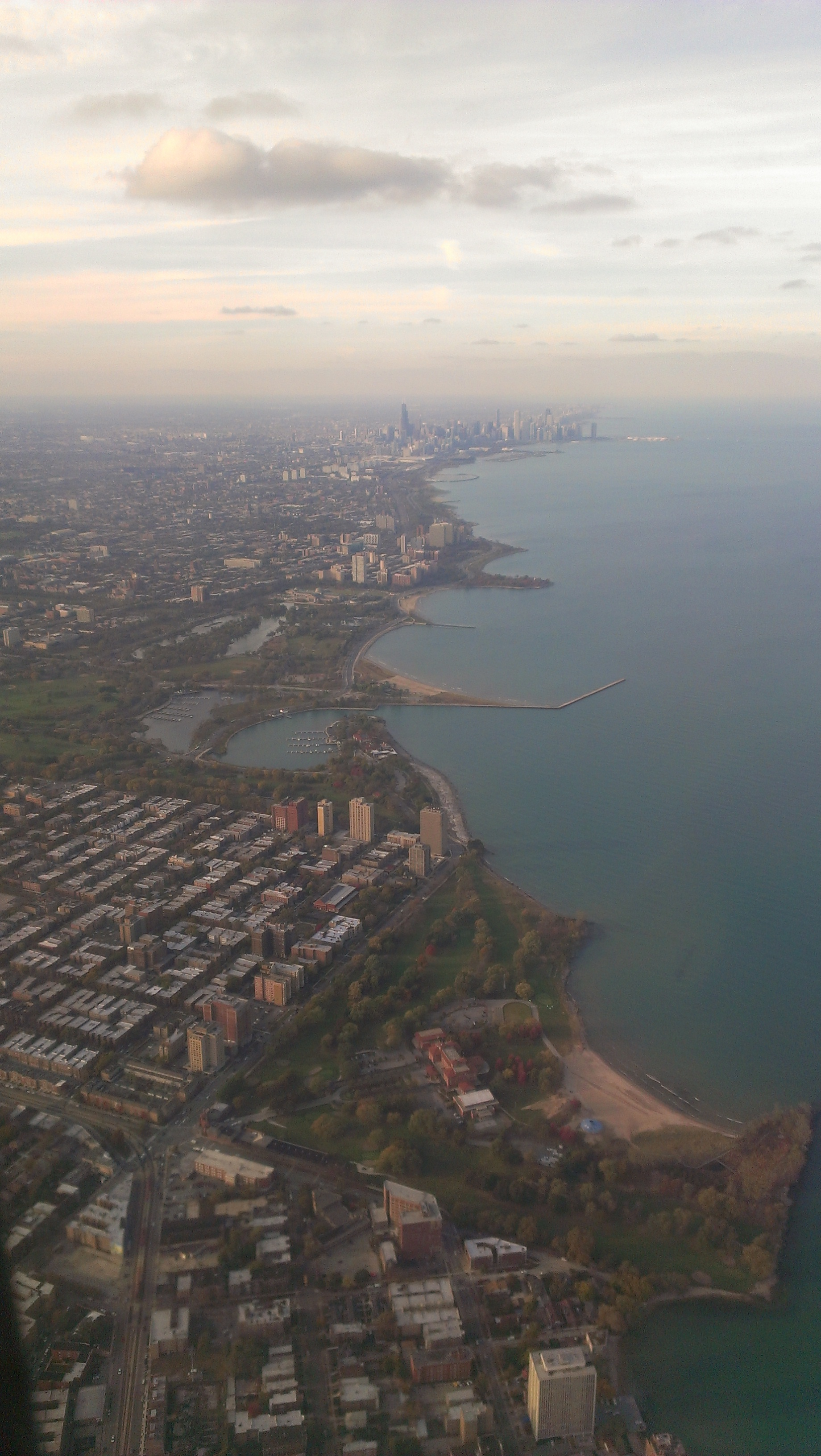 View of Chicago from an airplane. South Shore and Hyde Park in foreground, looking north towards downtown.